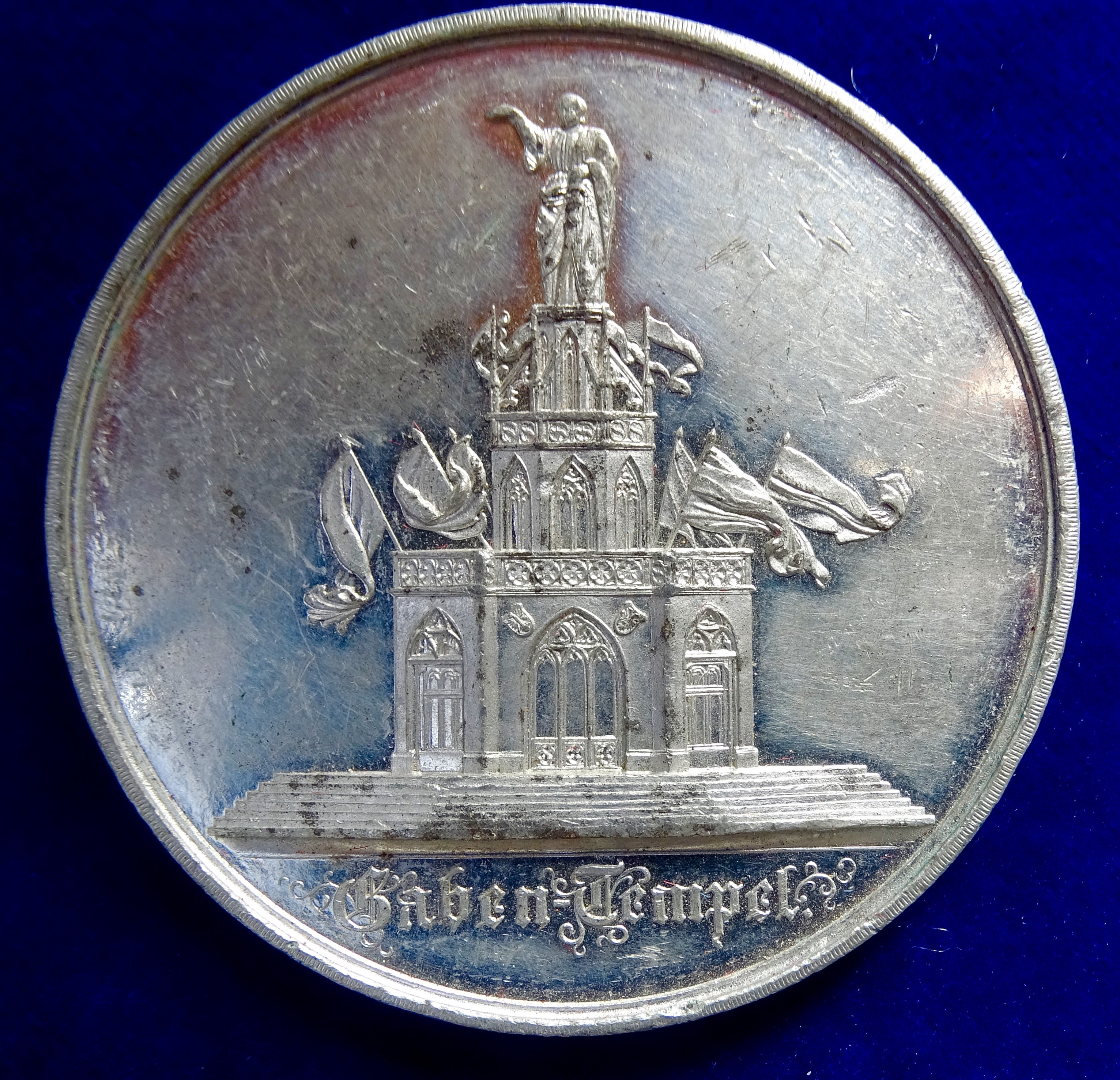 Pewter medallion d. = 55 mm. 1 line below flagged monument: "Gaben-Tempel"/ 6 lines in wreath: "DEUTSCHES SCHÜTZENFEST ZU FRANKFURT A/M. D: 13-18 JULI 1862." J.+F. 1303. Medallists: Gebrüder Hartwig, Offenbach am Main Condition: Nice VERY FINE.